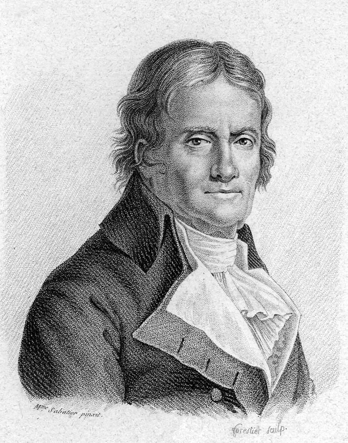 Raphael Bienvenu Sabatier (1732-1811) French Physician